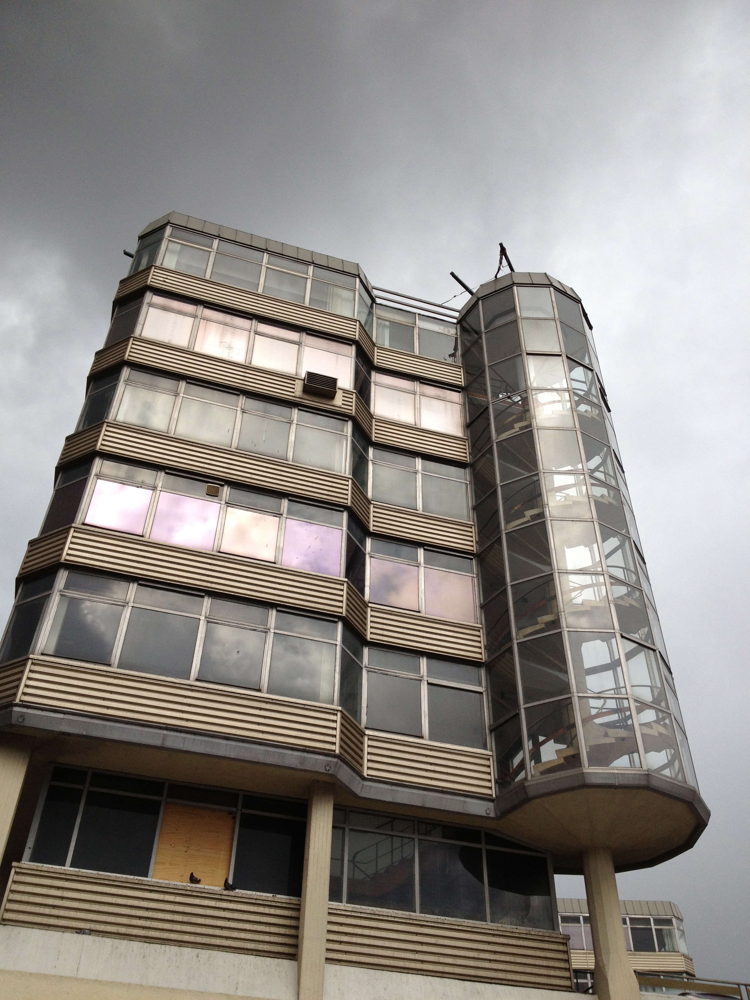 Spiral Staircase on Soveriegn House in Anglia Square Norwich